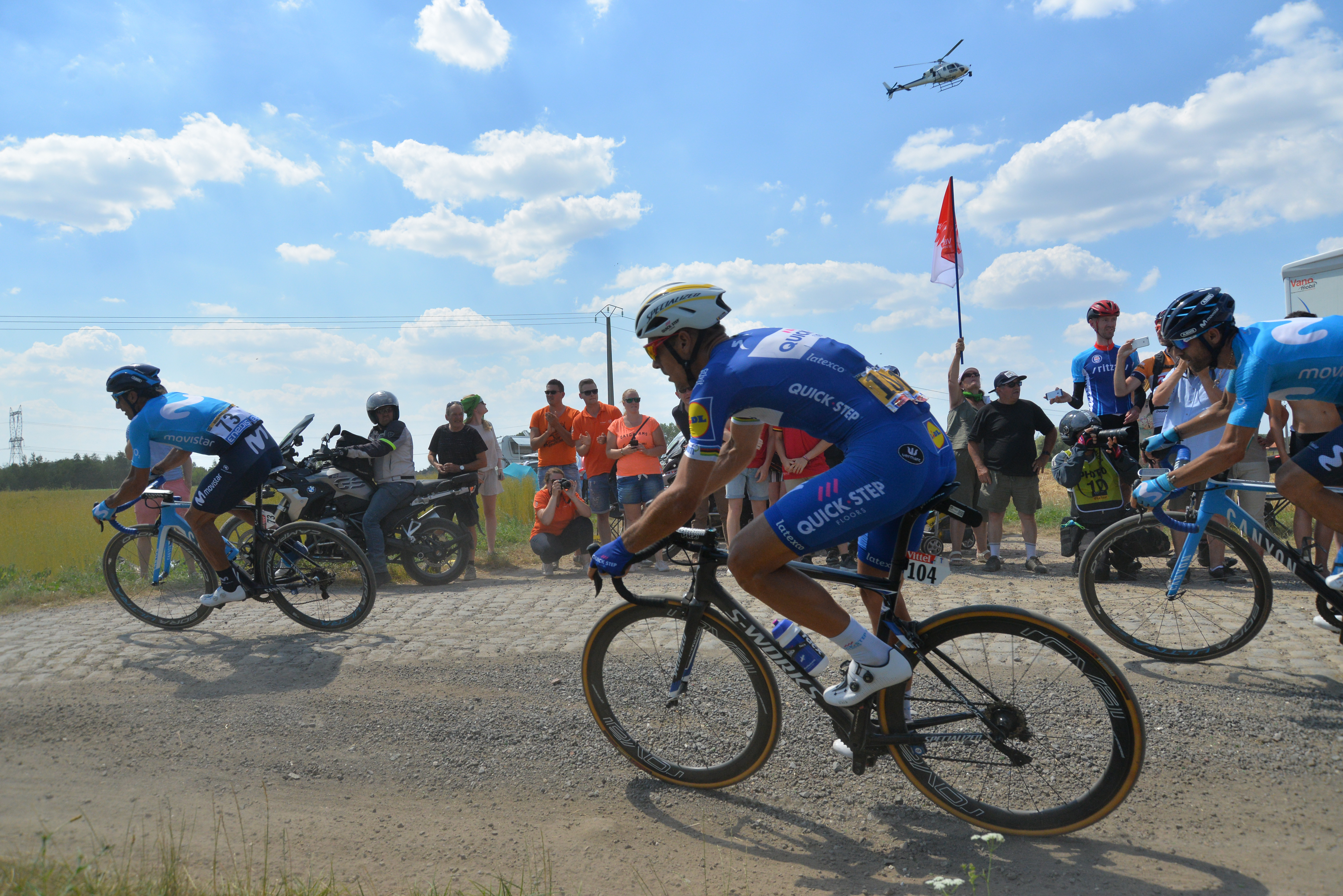 2018 Tour de France – stage 9 sector 9